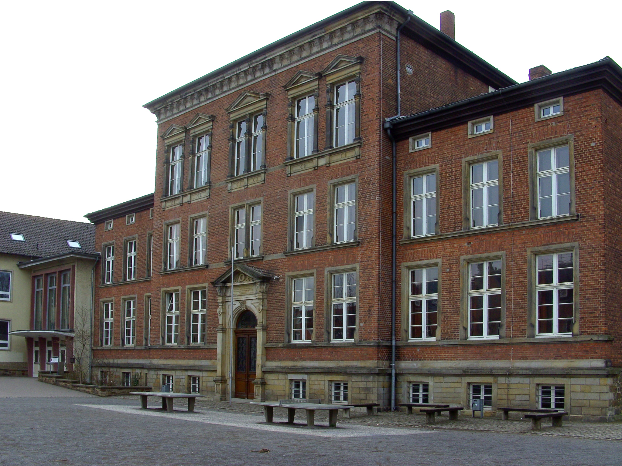 Old building of Gymnasium Ernestinum today (2012)